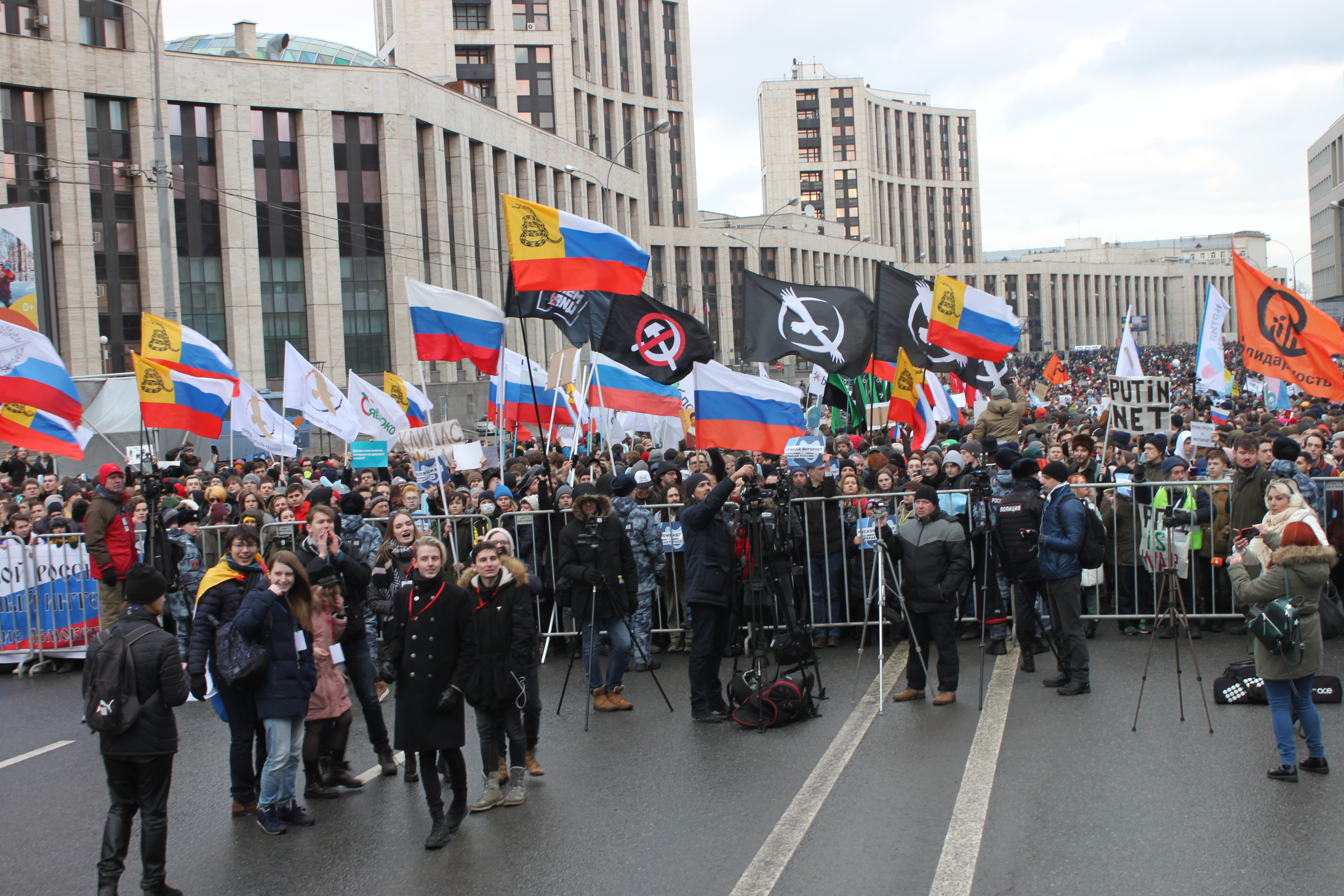 Rally against the isolation of Runet (2019-03-10).